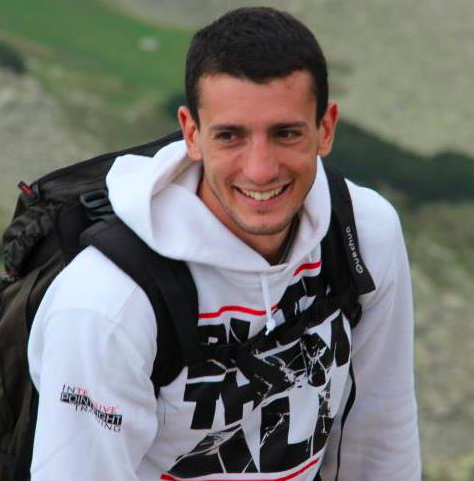 gregorio di leo photo